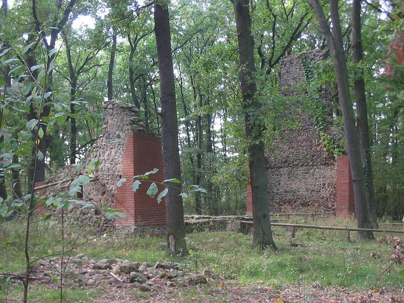 Ruin of the stonechurch in the abandoned village Dangelsdorf, situated in the forest „Nonnenheide“; built probably in the first half of the 14th century. In the south of the abandoned village was founded a new village Dangelsdorf, which is today a part of the municipality Görzke in the district Potsdam Mittelmark, state Brandenburg, Germany. The village appertains to the nature park Naturpark Hoher Fläming.